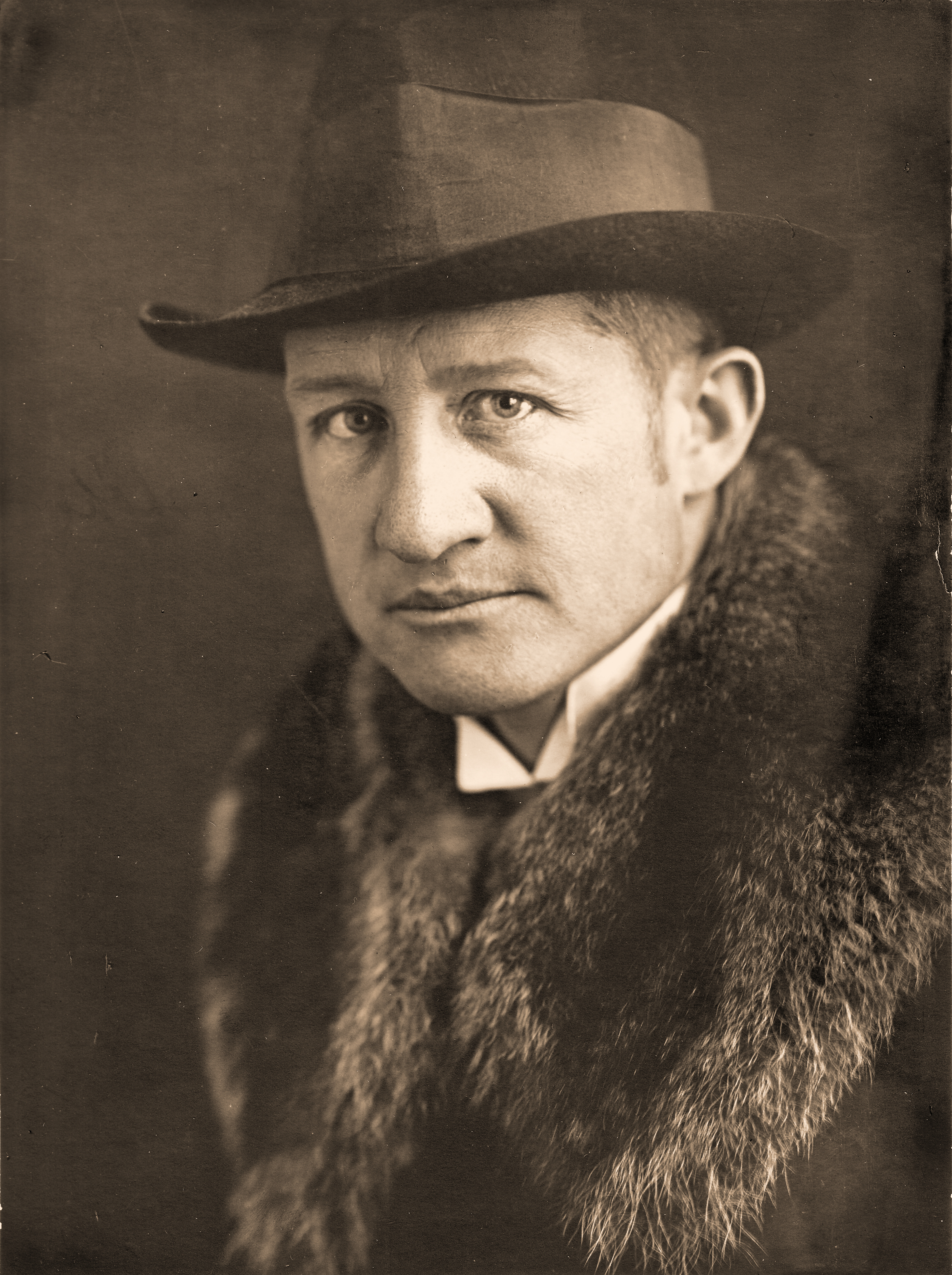 Portrait of the art historian Richard Paulus